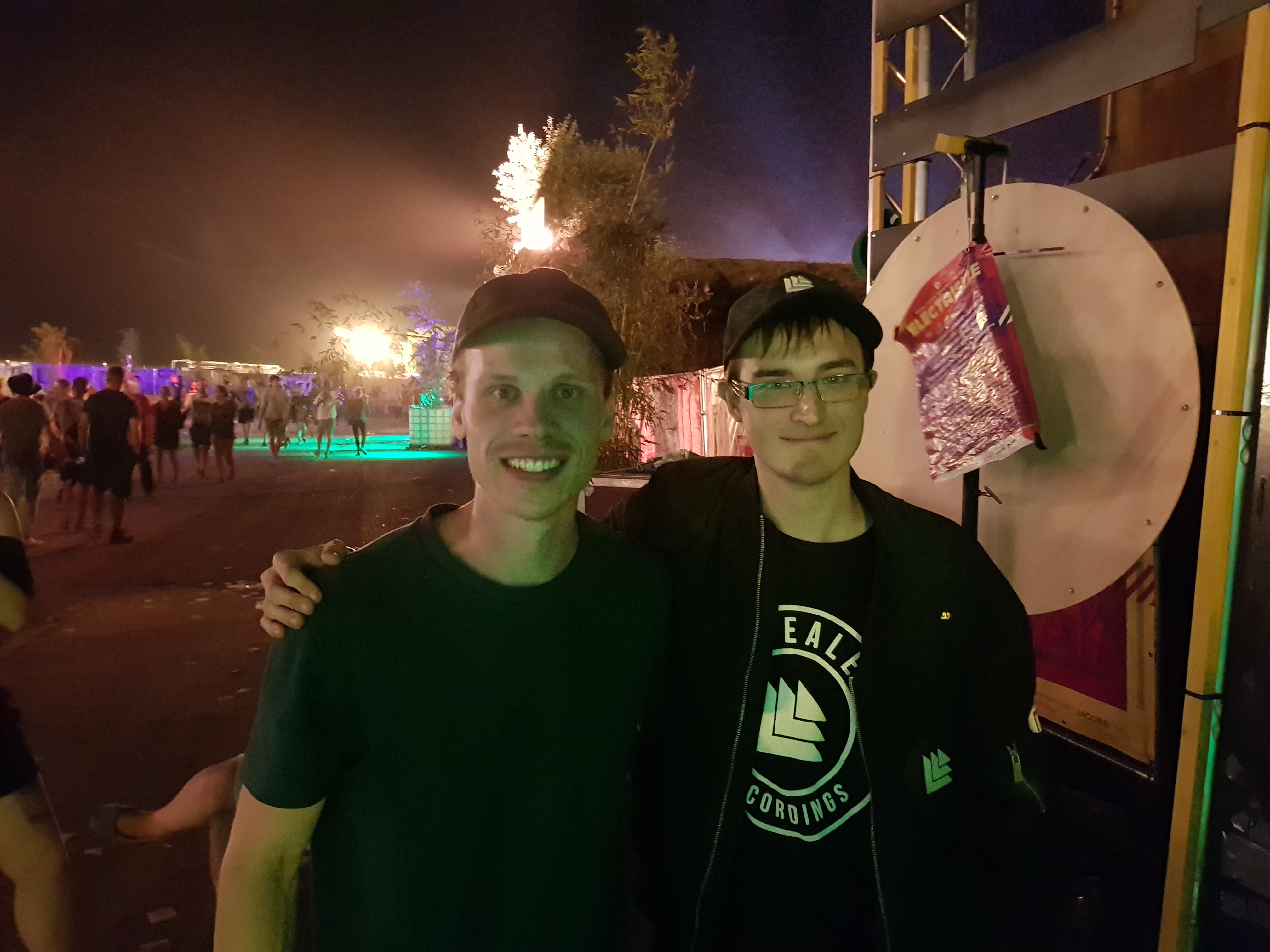 Maddix Parookaville 18